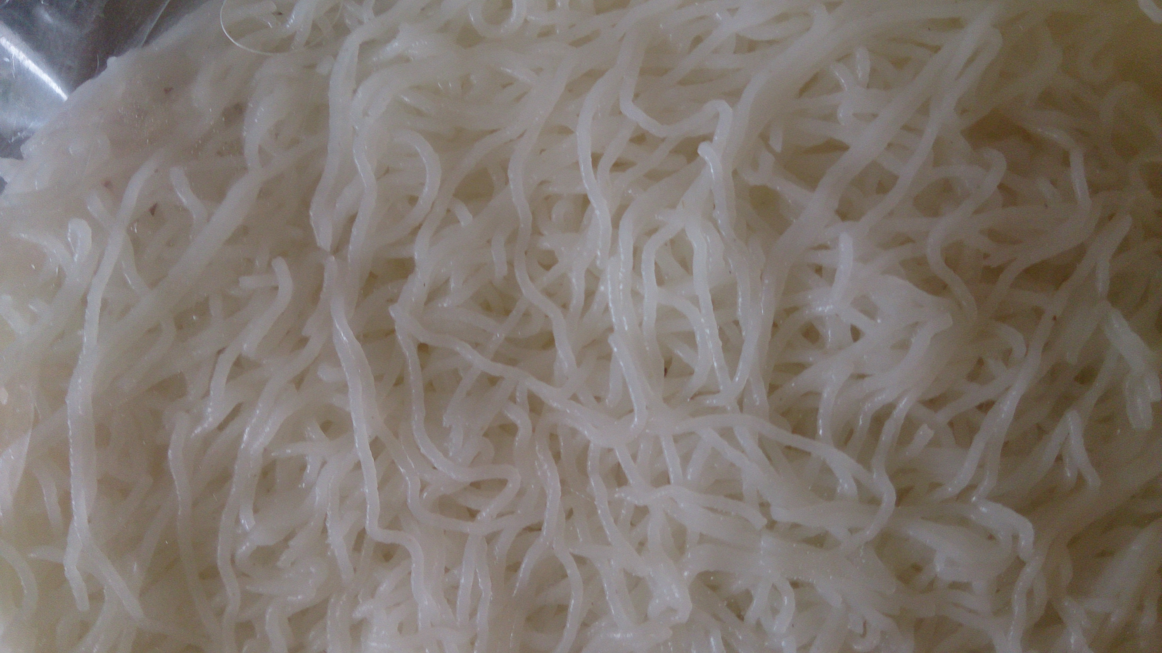 usually eaten with orange sugar and coconut shreads